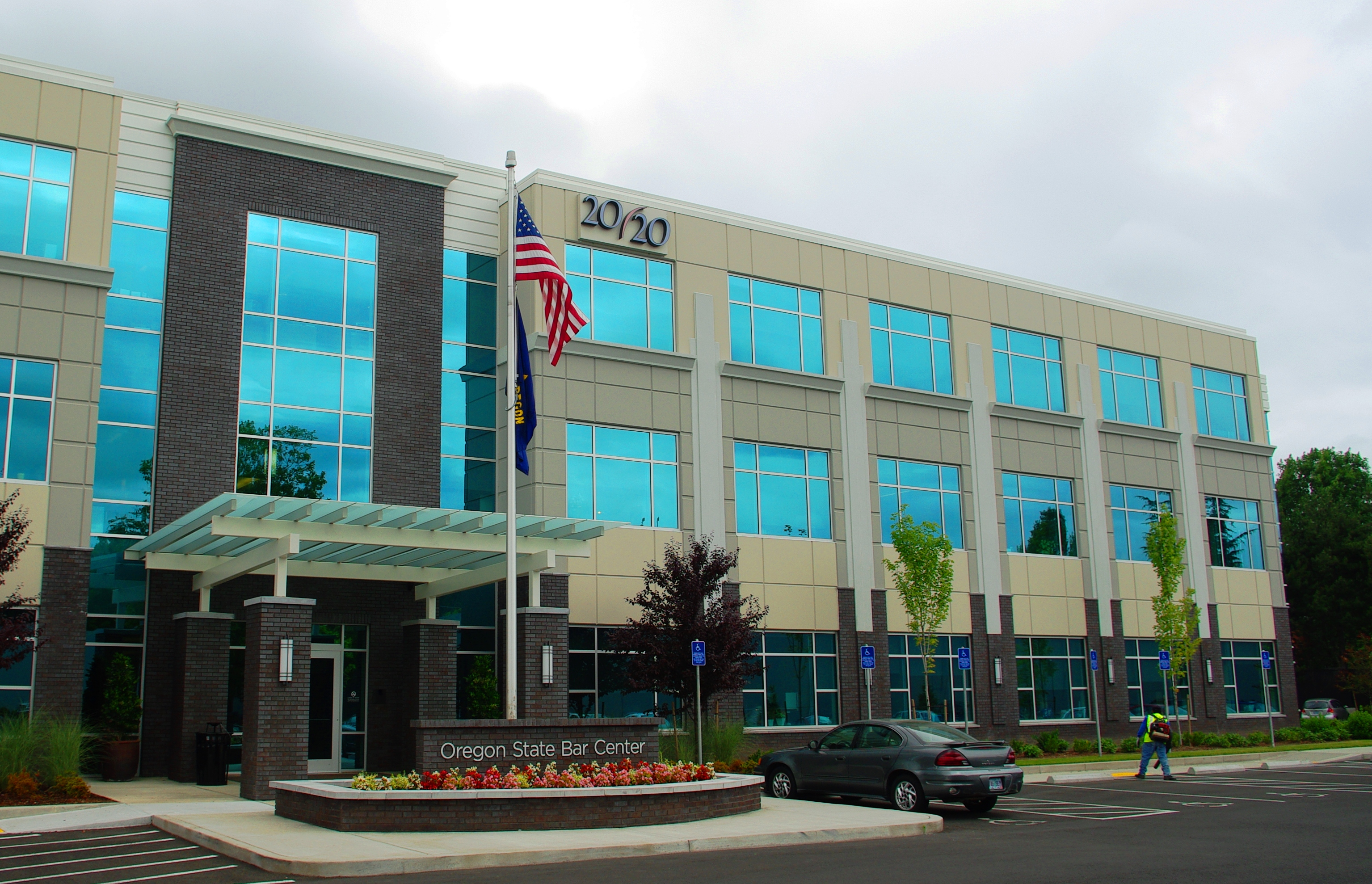 Oregon State Bar office in Tigard, Oregon.